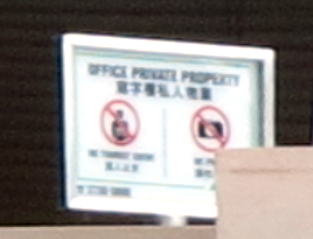 ICC No visitor and photography Notice